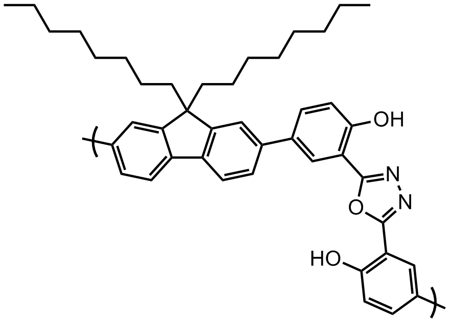 This is a polyfluorene with yellow-green emission File:Polyfluorene derivative luminescence.png (on the left) due to excited state intramolecular proton transfer